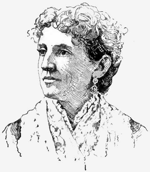 Portrait drawing of 19th-century reformer Lillie Devereux Blake.